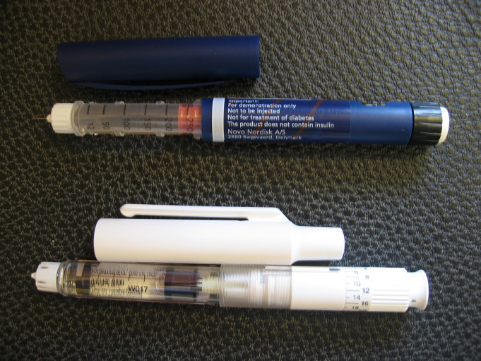 Two types of modern, pre-filled insulin syringes ("Insulin pen"). Photo taken by PerPlex.